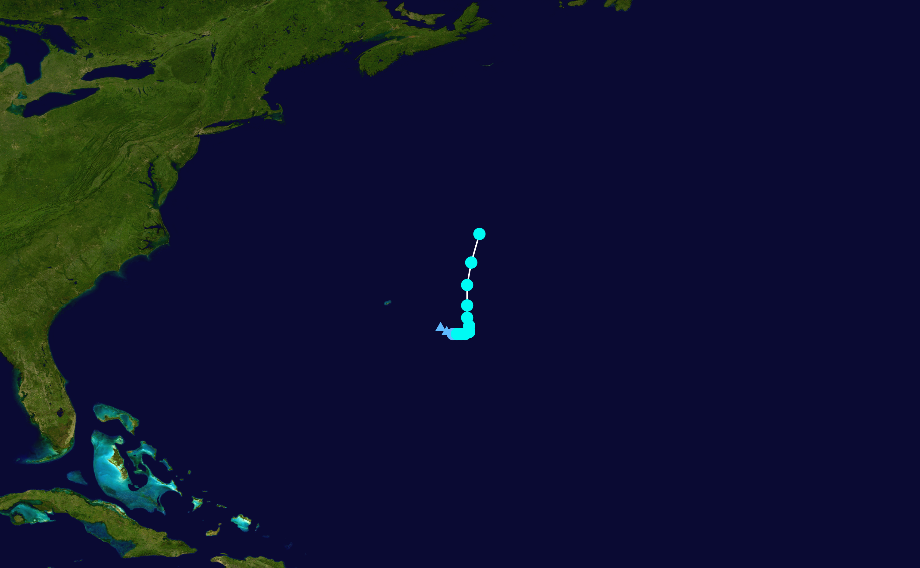 Track map of Tropical Storm Henri of the 2015 Atlantic hurricane season. The points show the location of the storm at 6-hour intervals. The colour represents the storm's maximum sustained wind speeds as classified in the Saffir–Simpson scale (see below), and the shape of the data points represent the nature of the storm, according to the legend below. Saffir–Simpson scale Tropical depression≤38 mph≤62 km/h Category 3111–129 mph178–208 km/h Tropical storm39–73 mph63–118 km/h Category 4130–156 mph209–251 km/h Category 174–95 mph119–153 km/h Category 5≥157 mph≥252 km/h Category 296–110 mph154–177 km/h Unknown Storm type Tropical cyclone Subtropical cyclone Extratropical cyclone / Remnant low / Tropical disturbance / Monsoon depression